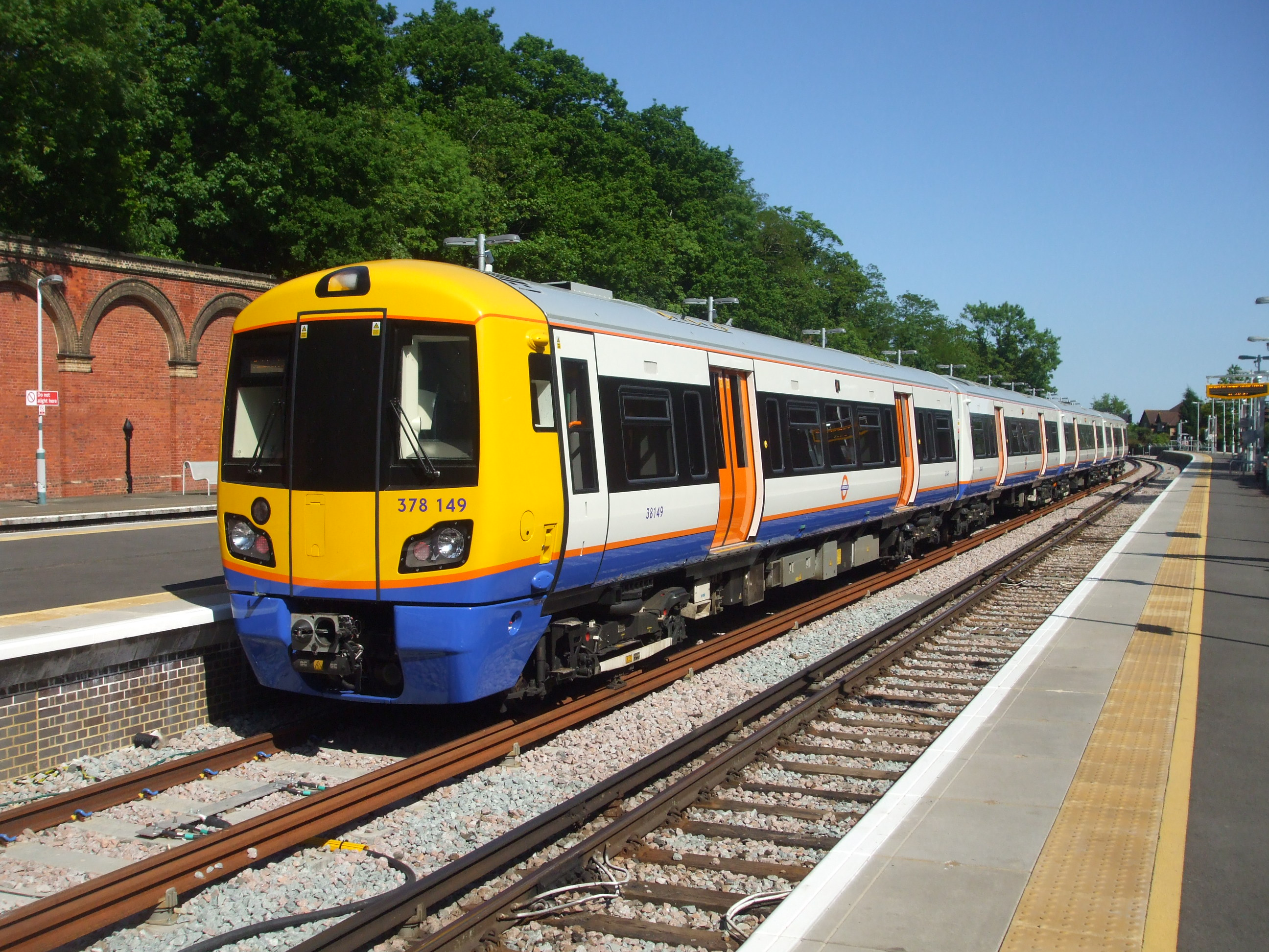 Class 378 unit 378149 at Crystal Palace station, awaiting return to Dalston Junction on the first day of East London Line services at the station.